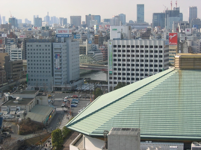 This is the Sumo arena, JR Sobu Line Station, and surrounding area at Ryogoku.